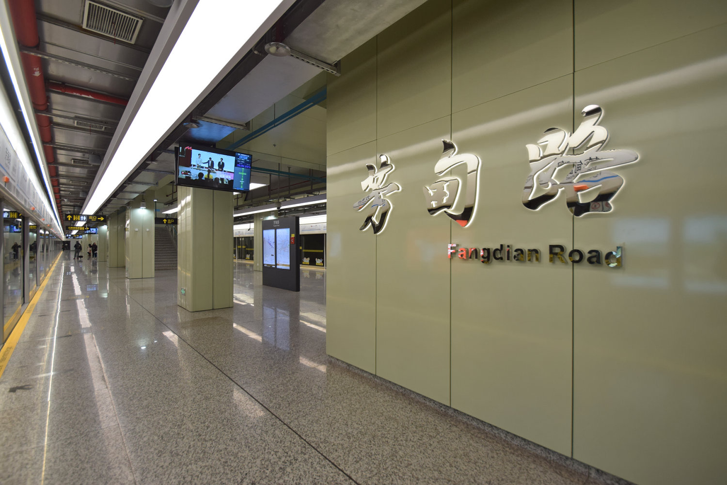 Line 9 Platform of Fangdian Road Station, Shanghai Metro